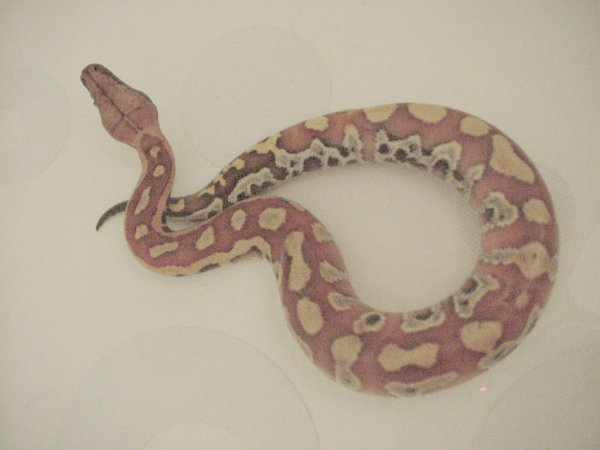 Python curtus brongersmai.